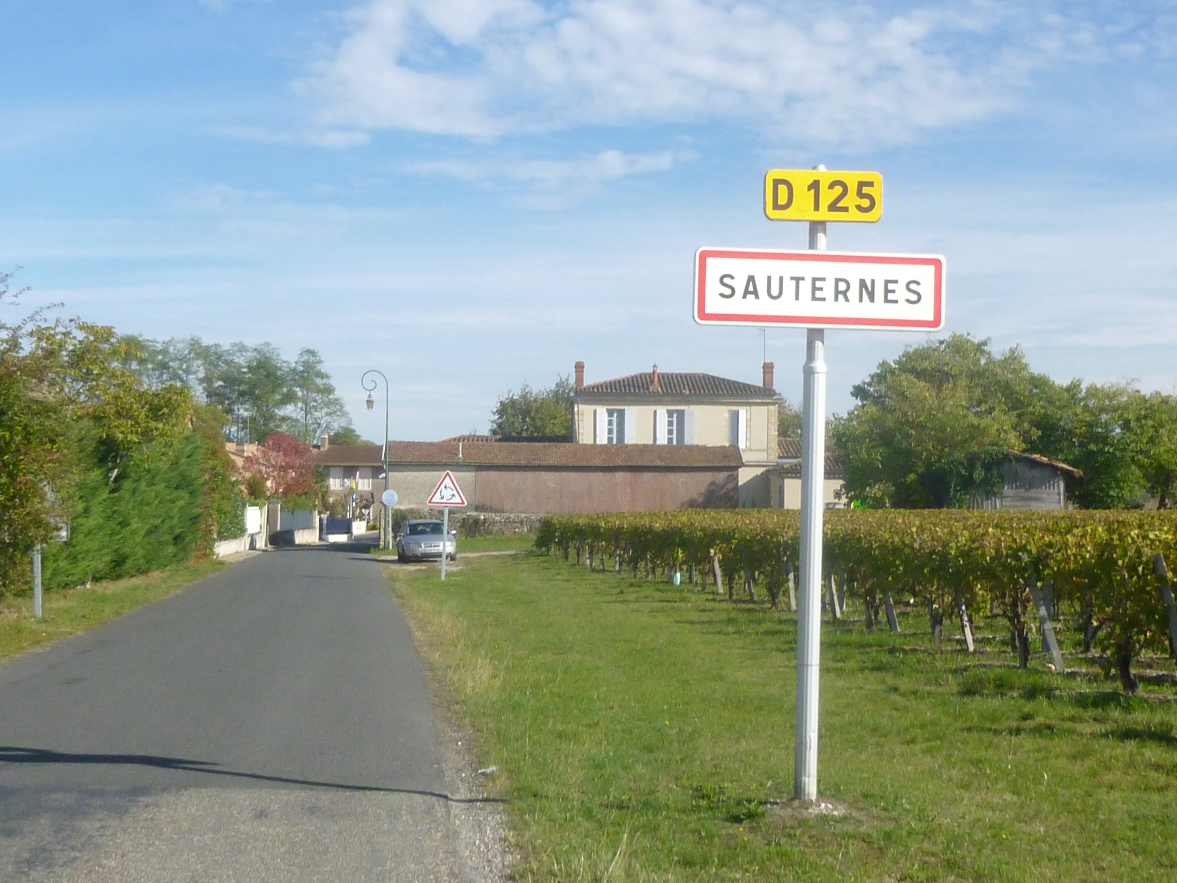 Vineyard in the Bordeaux wine region of Sauternes